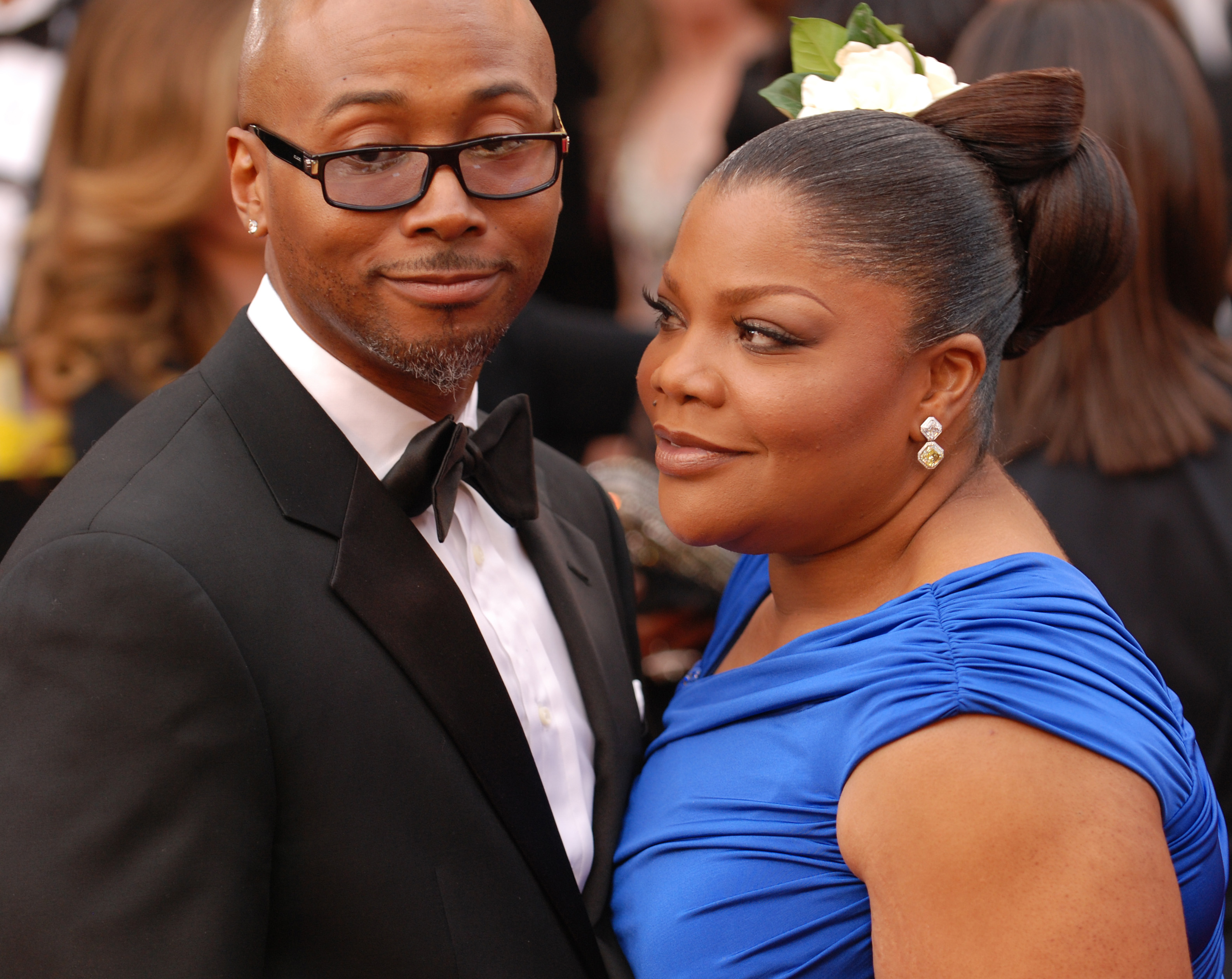 Mo'Nique and Husband Sidney Hicks enjoy the moment on the red carpet at the 82nd Academy Awards.